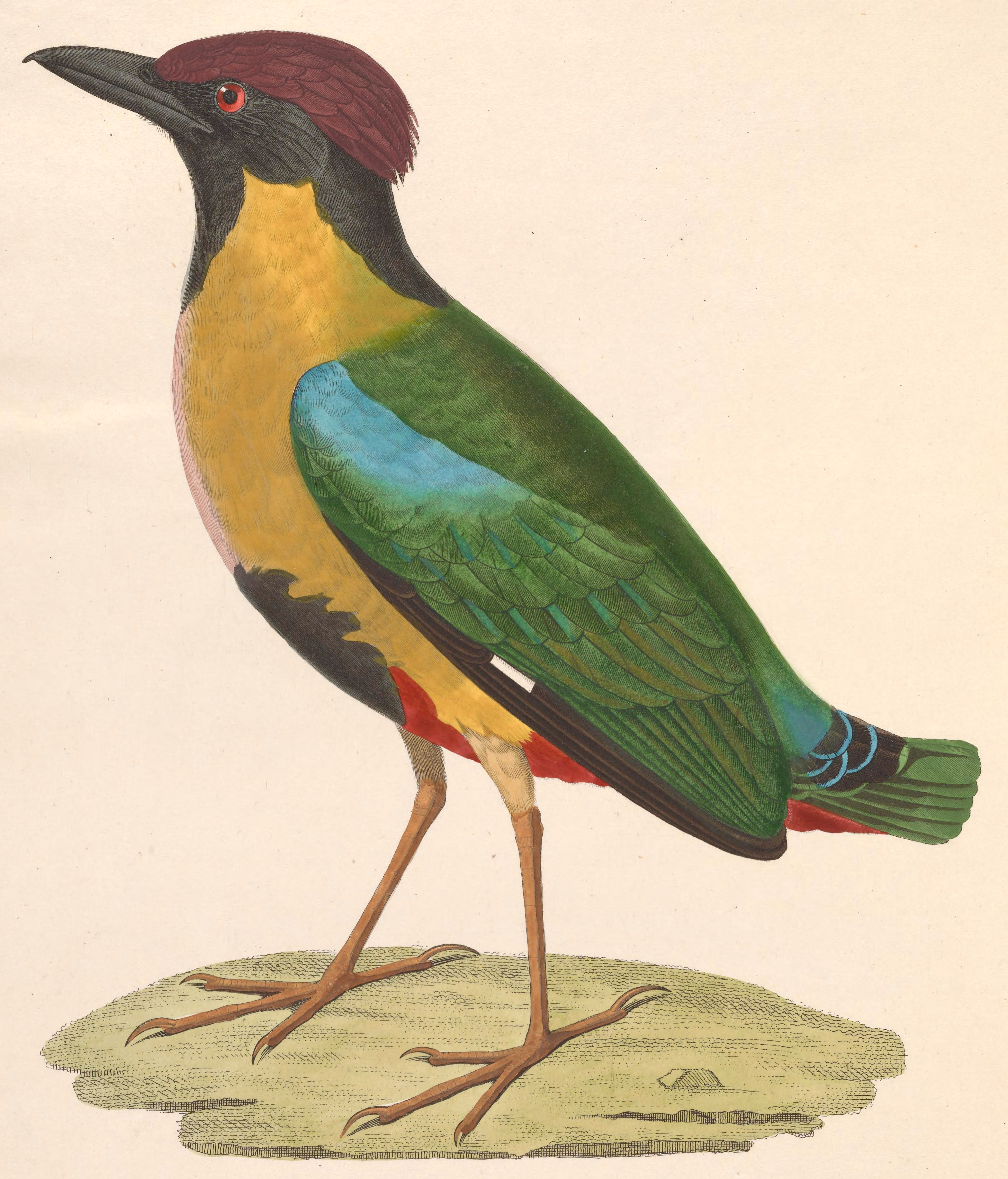 « Pitta strepitans » = Pitta versicolor (Noisy Pitta) - adult